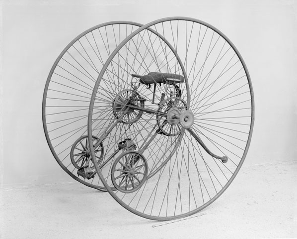 An object from the collections of the Science Museum (London) as copied from their ObjectWiki.